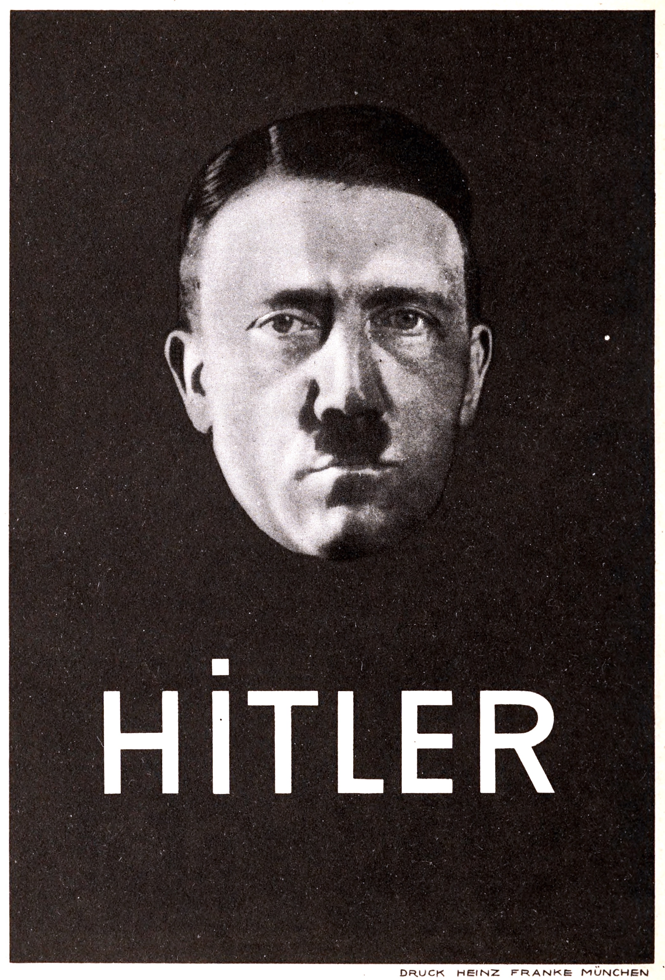 Political poster promoting Adolf Hitler and the Nazi Party NSDAP in the 1932 German presidential election (March/April). Graphic designer: Anonymous/unknown. Print: Heinz Franke Druck, Munich. No known copyright restrictions. Cropped page from United States Holocaust Memorial Museum's scanned copy of Das politische Plakat: eine psychologische Betrachtung, a book by Erwin Schockel and Reichspropagandaleitung der N.S.D.A.P, published in Germany 1938, found at . Randall Bytwerk, Professor of Communication Arts and Sciences at Calvin University in Grand Rapids, Michigan (USA) 1985-2014, writes about Nazi posters and Das politische Plakat at his "German Propaganda Archive" web pages: "This interesting poster appeared in 1932. The usual approach with posters is to use color to make them stand out. This one stands out because of Hitler’s disembodied face floating on a black background. (...) the outward impression is a harmonious whole. Peacefulness, strength, and goodness speak to the viewer from Hitler’s face. The impression of a spiritually pure man has to be good. (...)"